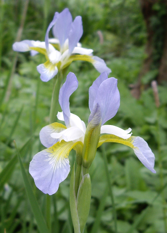 Iris sibirica, "Summer Sky", Germany: Hannover: Schlosspark Herrenhausen, 13 May 2011